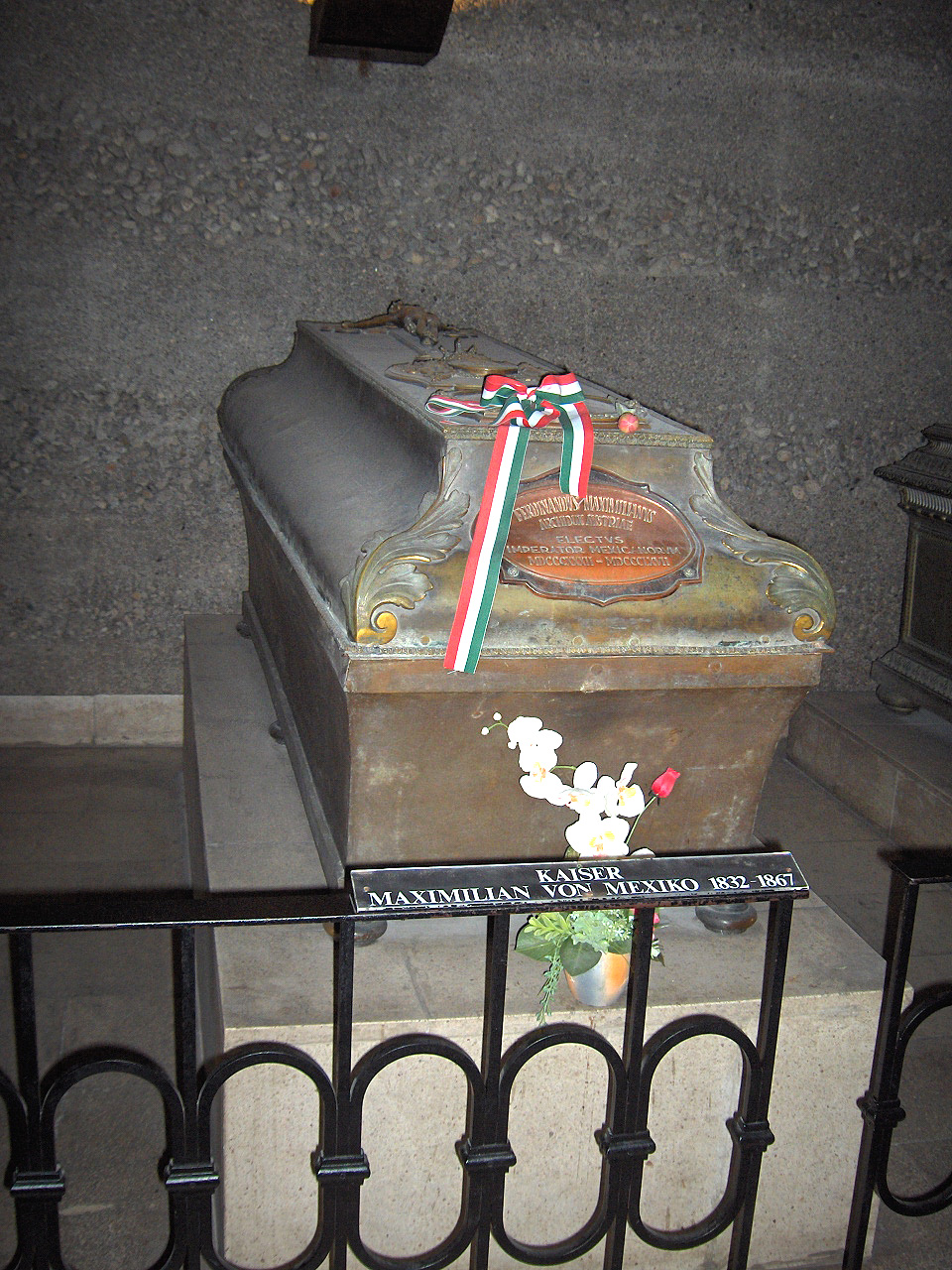 Tomb of Emperor Maximilian I of Mexico (1832 - 1867); Kaisergruft, Vienna